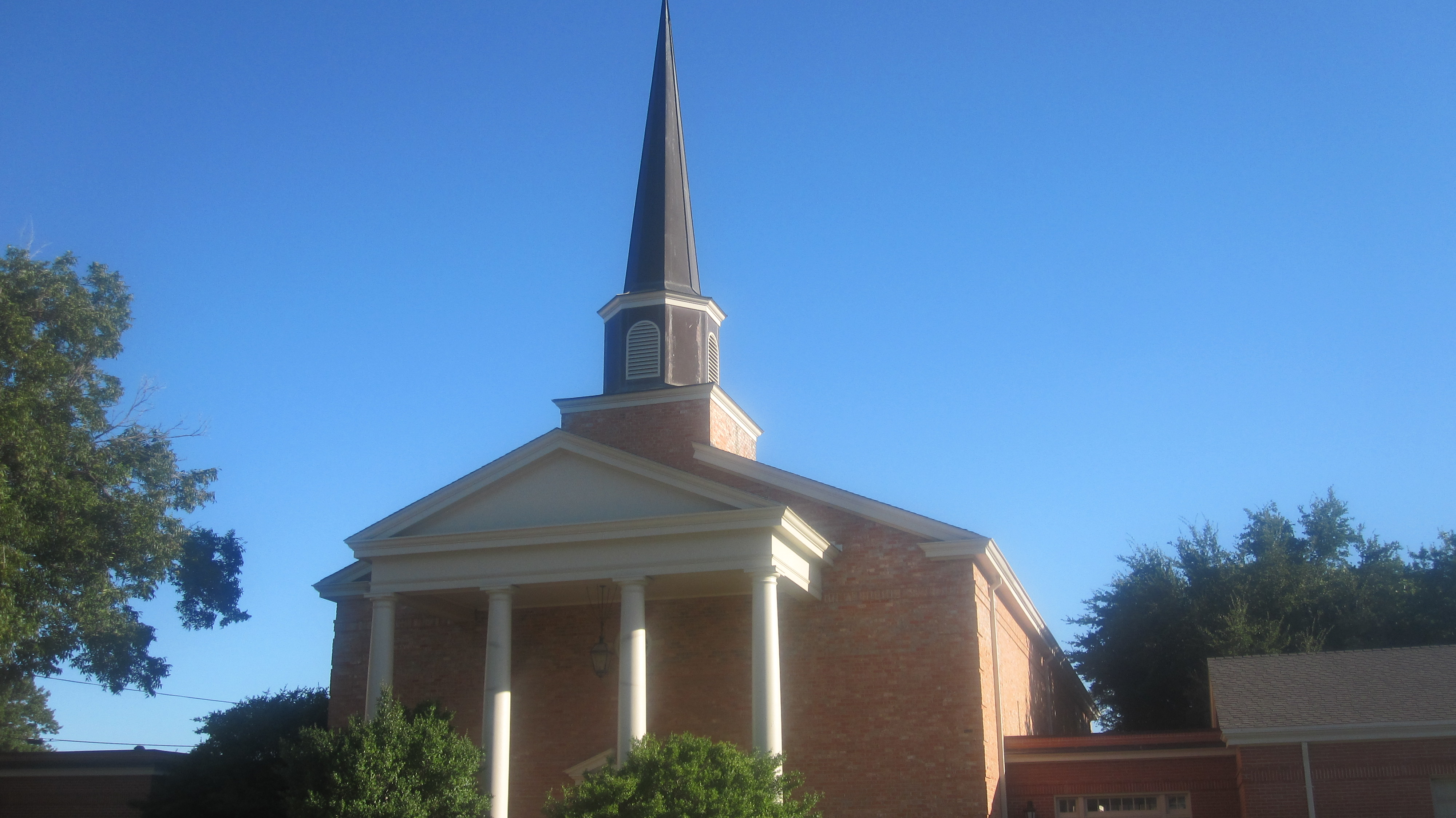 I took photo with Canon camera in Abilene, TX.